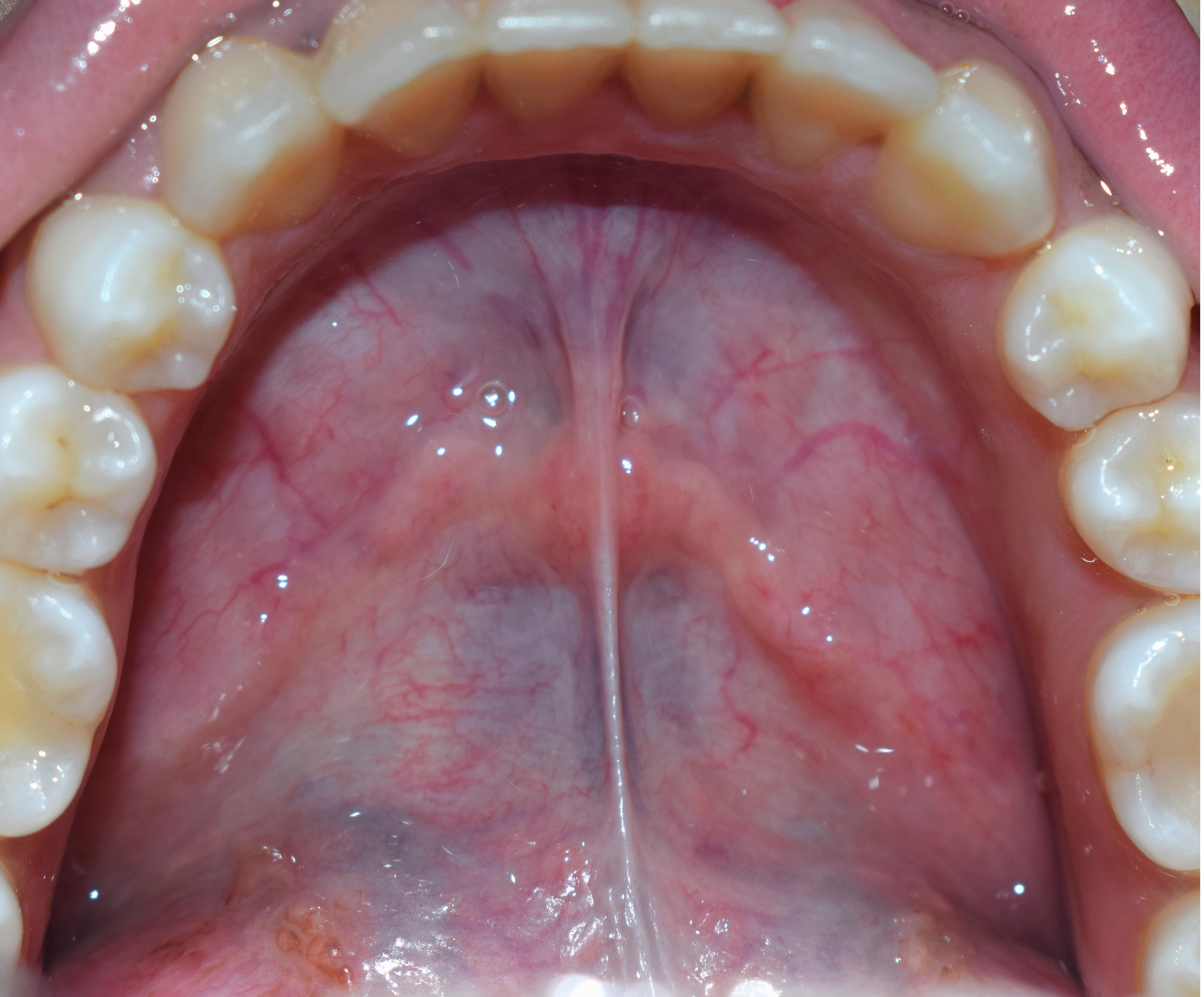 Floor of the mouth and the Lingual frenulum